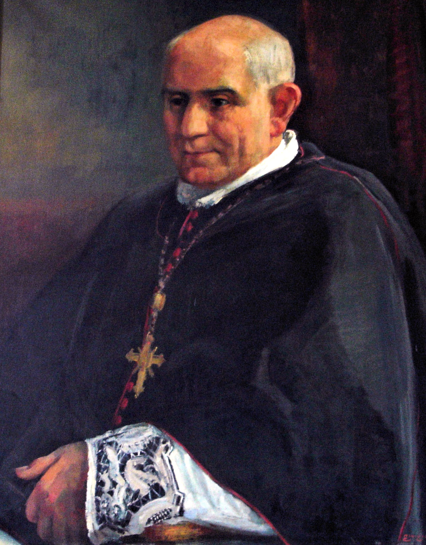 own work